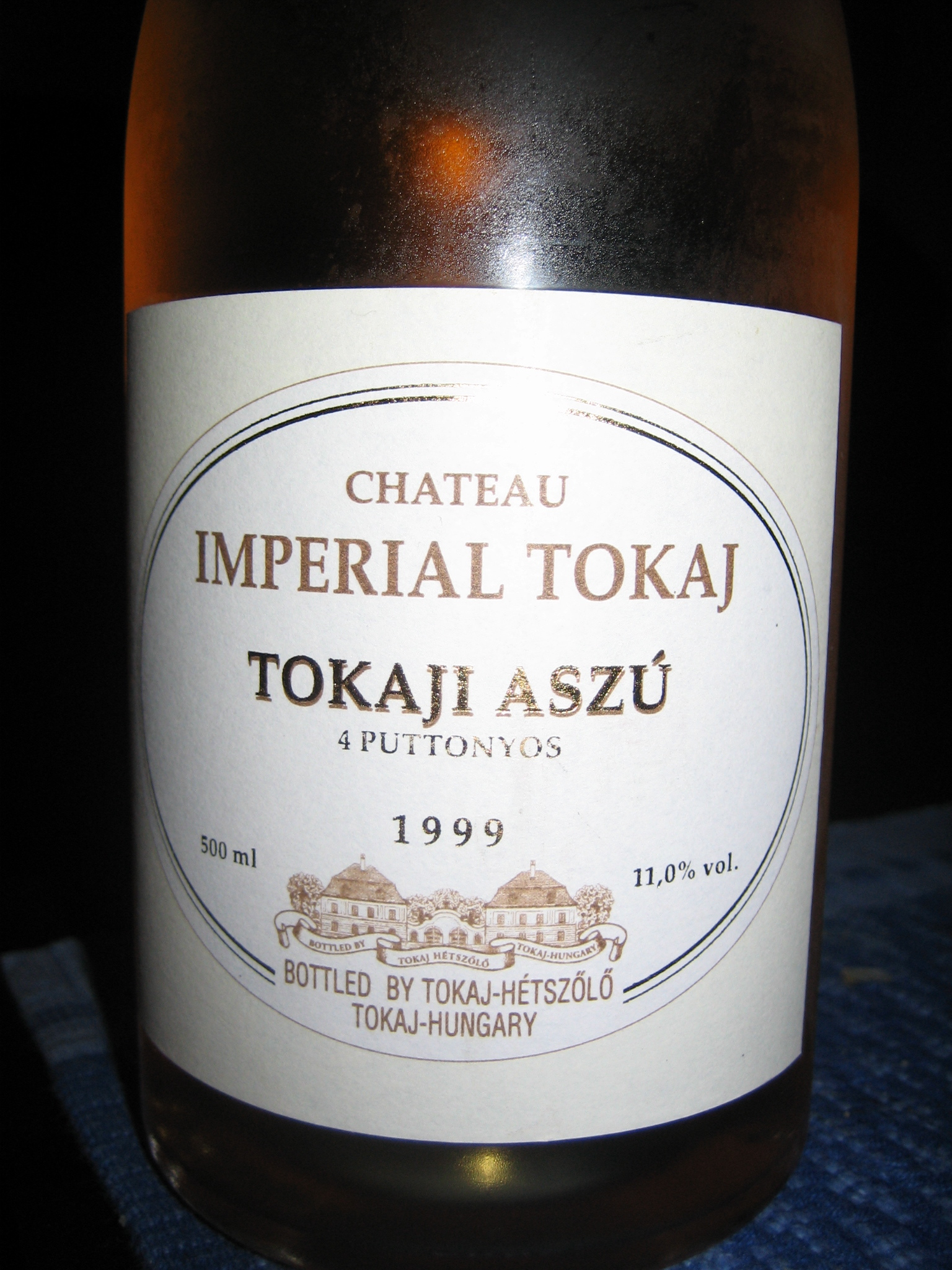 A rare sweet wine from Hungary.